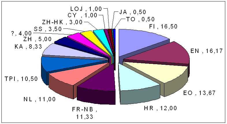 I have made this graphic about the Toki Pona origin of every basic word, using information from the official page ( Eynar 00:20, 19 February 2006 (UTC)